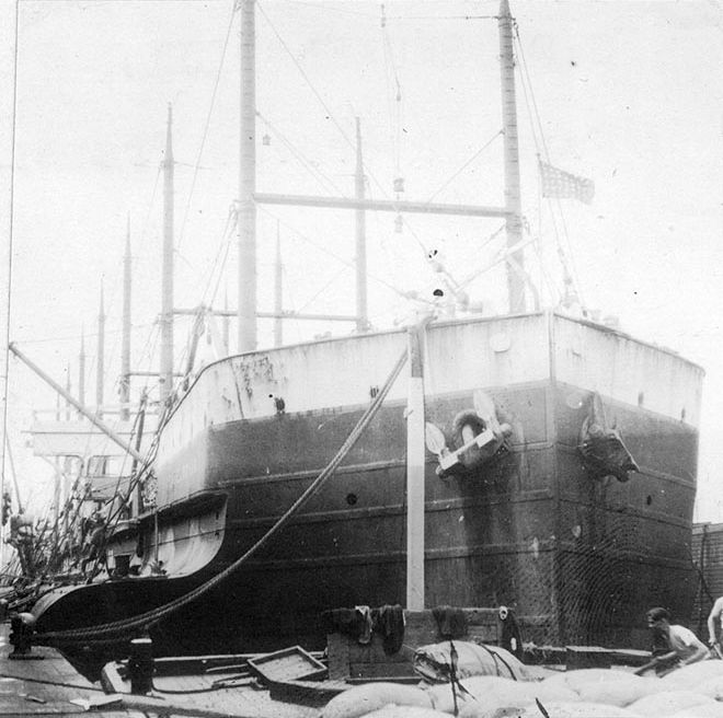 Photo of USS Beukelsdijk in port, possibly when inspected by the Third Naval District on 10 July 1918.